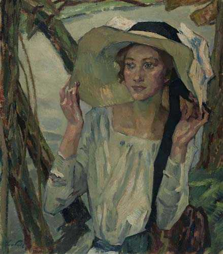 Lady with a Florentine hat